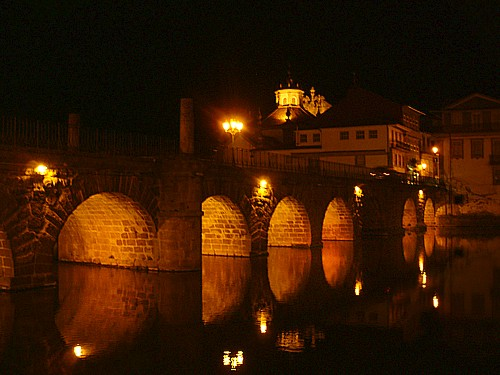 Roman Bridge at Chaves